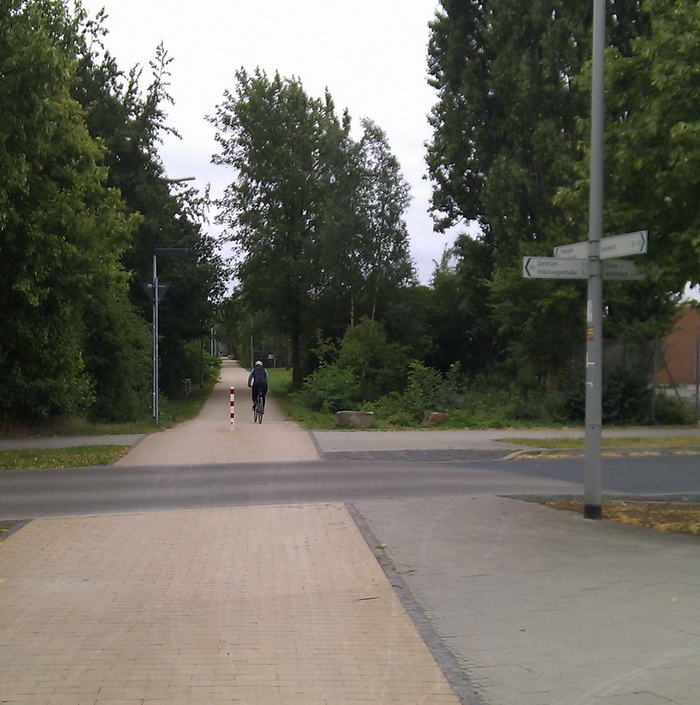 Part of the Braunschweig Ringgleis: Crossing of the Pippelweg.